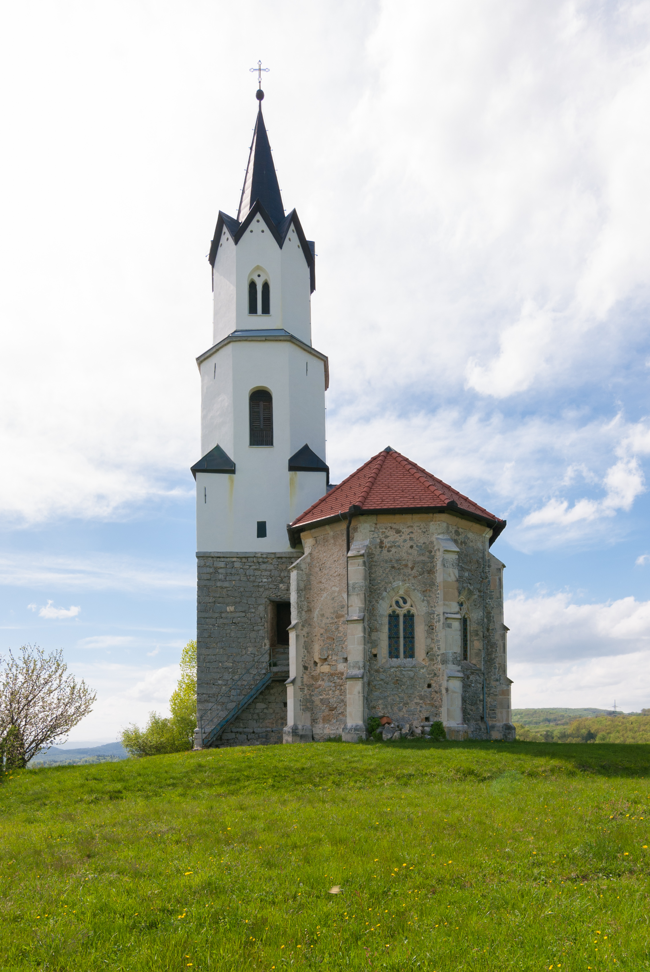 Church of st. Barbara in the vilage of Okrog, Slovenia.